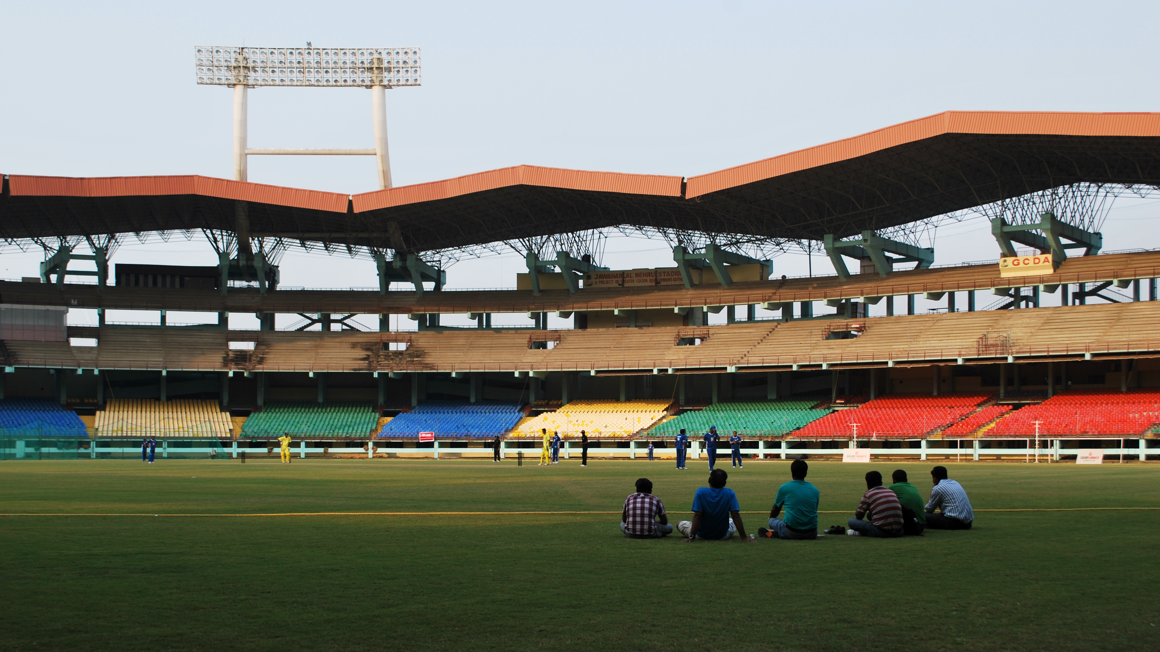 Jawaharlal Nehru Stadium, Cochin